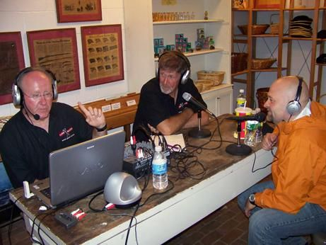 Tom and Dave of KAPS Paranormal Radio interview Jason Hawes of Ghost Hunters.